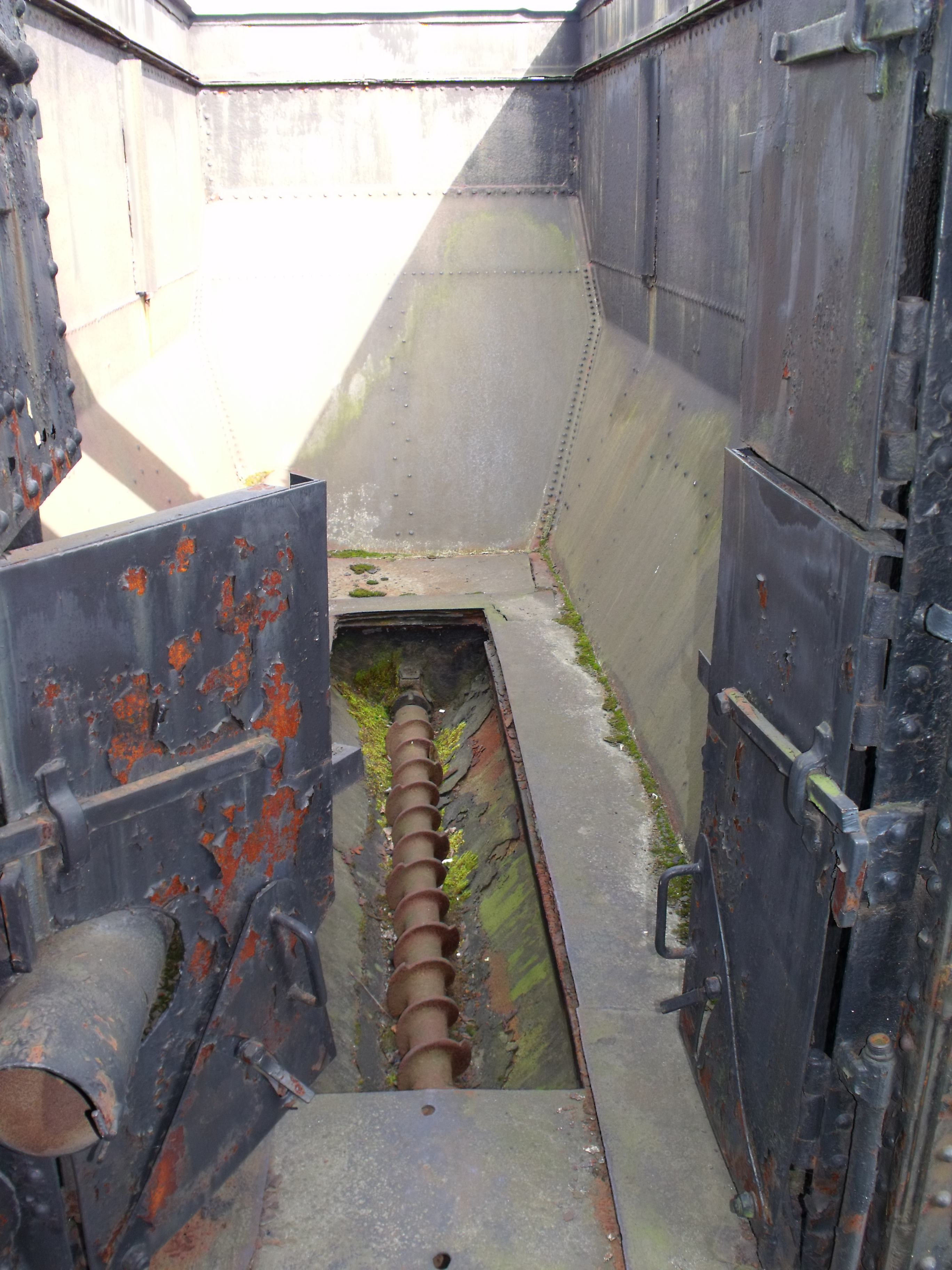 Mechanical stoker of Ty246